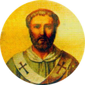 Portait of Pope Pelagius II in the Basilica of Saint Paul Outside the Walls, Rome